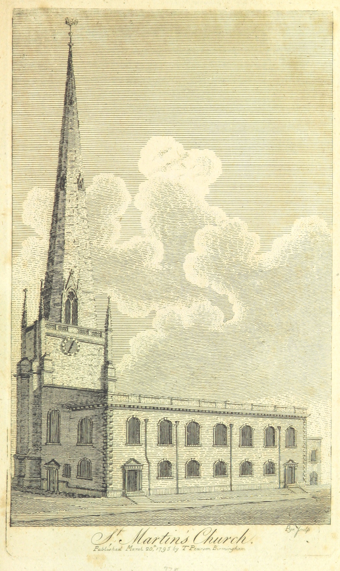 Image extracted from page 495 of An history of Birmingham ... With a new introduction by Christopher R. Erington', by William Hutton. Original held and digitised by the British Library. Copied [ Note: The colours, contrast and appearance of these illustrations are unlikely to be true to life. They are derived from scanned images that have been enhanced for machine interpretation and have been altered from their originals.